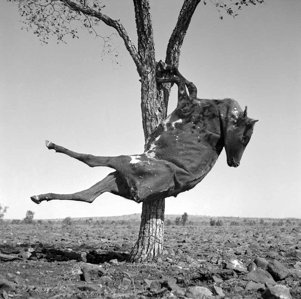 Photograph of dried carcass of a cow suspended in a tree, Queensland, Australia. Taken by artist Sidney Nolan during the 1952 Queensland drought.